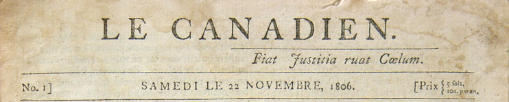 Header, frontpage of Le Canadien, November 22, 1806, vol. 1, no 1. Le Canadien was a French language newspaper published in Quebec city.